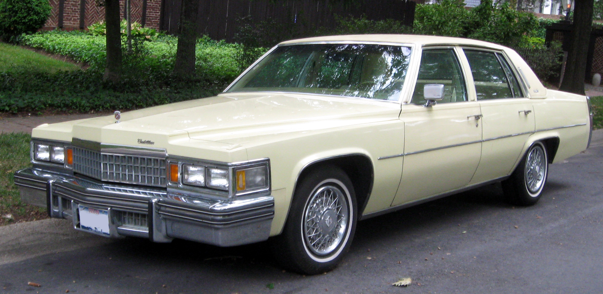 1978 Cadillac Sedan de Ville photographed in Chevy Chase, Maryland, USA.